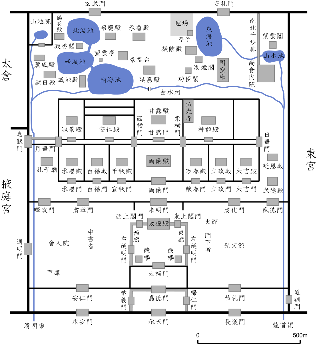 Map of Taiji Palace